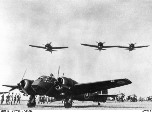 A Bristol Blenheim Mark I, L1134 'PT-F', of No. 62 Squadron RAF, taxying in front of a line of Brewster Buffaloes at Sembawang, Singapore, as another section of Buffaloes flies over the airfield. It was in L1134 that Squadron Leader A S K Scarf and his crew single-handedly attacked the Japanese-held airfield at Singora, Thailand, on 9 December 1941, for which action he was awarded a posthumous Victoria Cross.